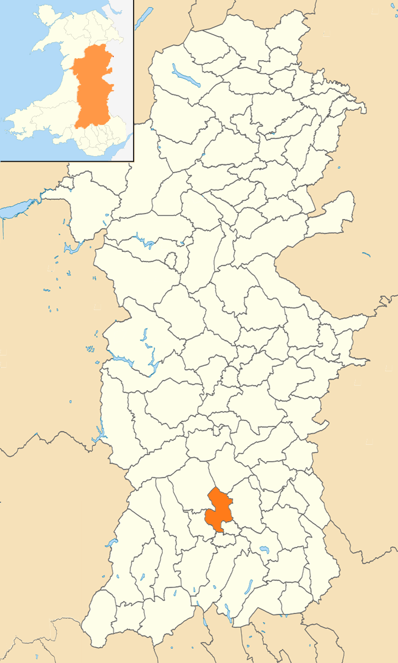 Location map of the community of Honddu Isaf in the south of Powys, Wales